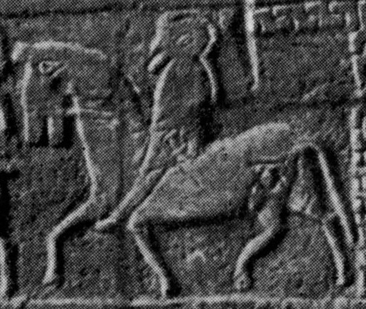 Photograph of an engraved warrior depicted upon the Govan sarcophagus. This image is a cropped version of File:Govan sarcophagus, black and white 2.jpg.